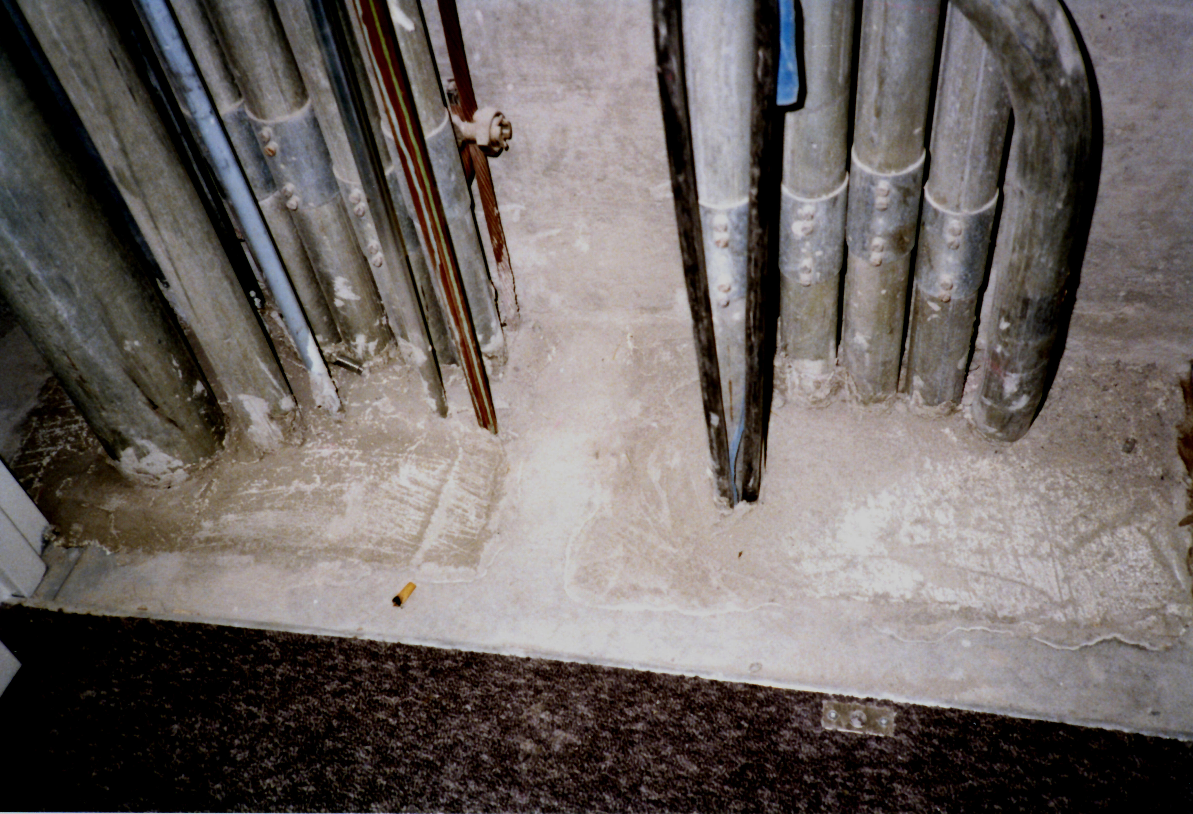 Firestop made of German K10 (Novasit) firestop mortar in Mississauga, Ontario, Canada City Hall, in a conduit penetration. The white susbtance on the top is primary efflorescence, which is of no structural concern and can be brushed off.